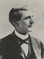 Kentucky Representative William Thomas Ellis